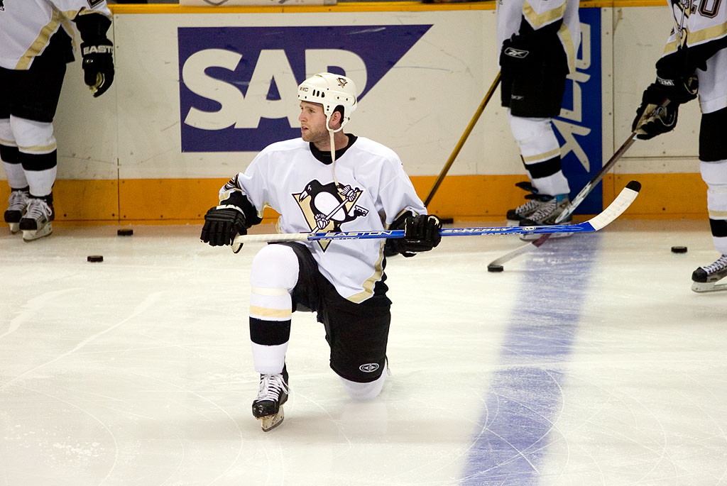 Ryan Whitney during pregame. Pittsburgh Penguins vs. San Jose Sharks